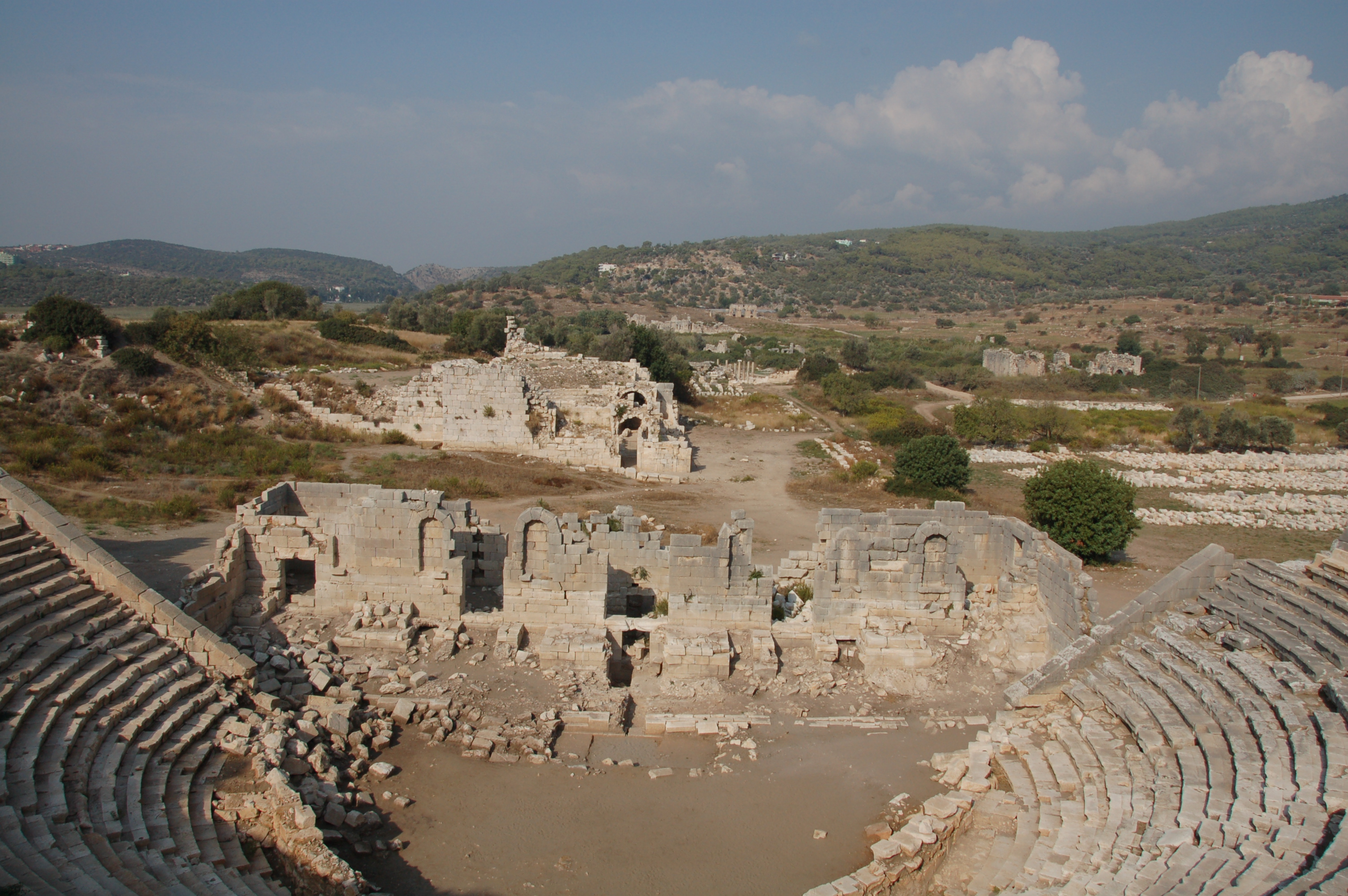 Overview from the old theater in the front to the parliament building and the gate of ancient Patara